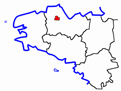 Description: Map for localisazion of cantons of Bretagne region in France Source: made by Hervé Tigier in april 2005 from another large map (published in 1990)